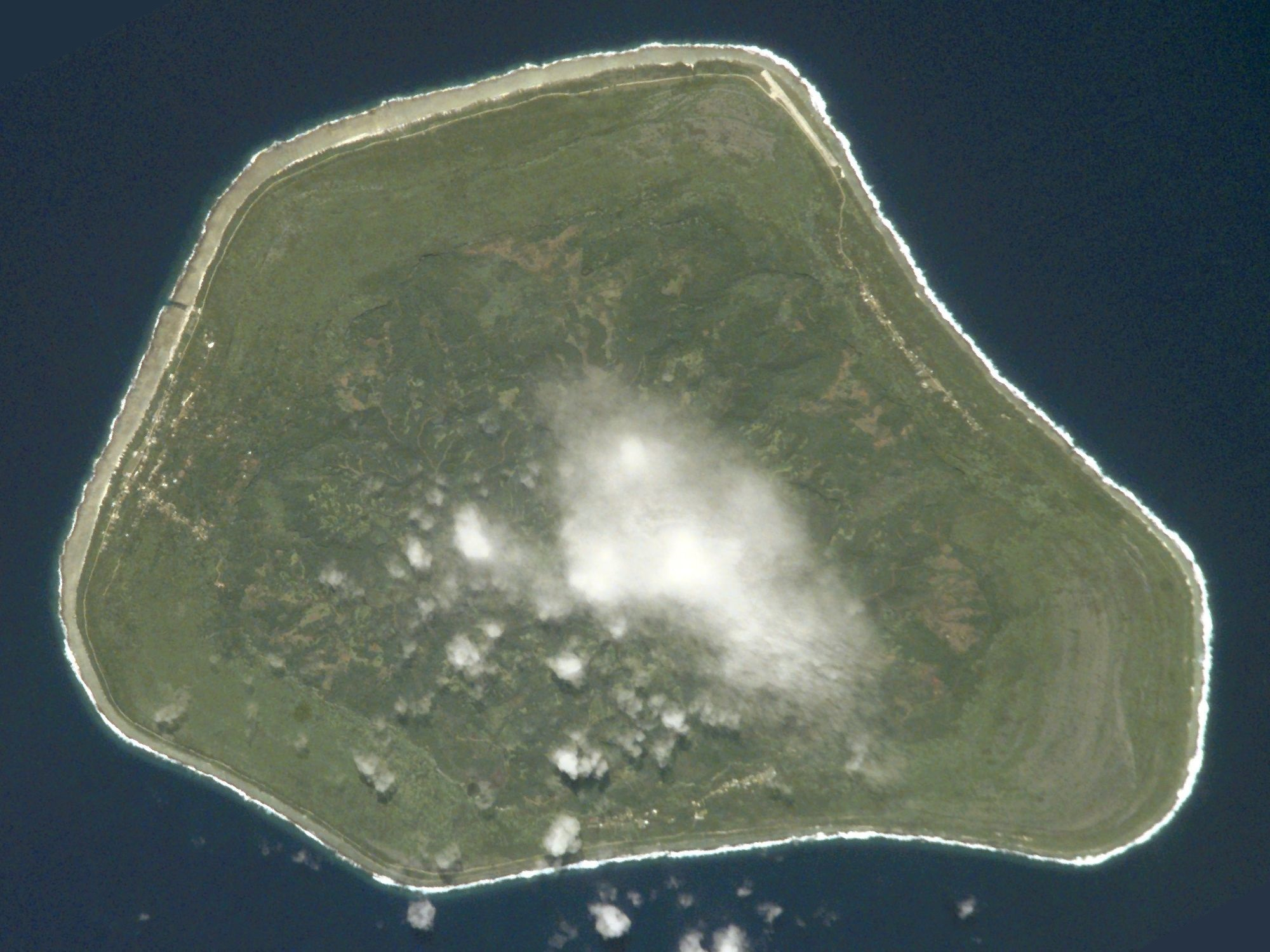 NASA astronaut image of Mangaia Island (Cook Islands) in the Pacific Ocean